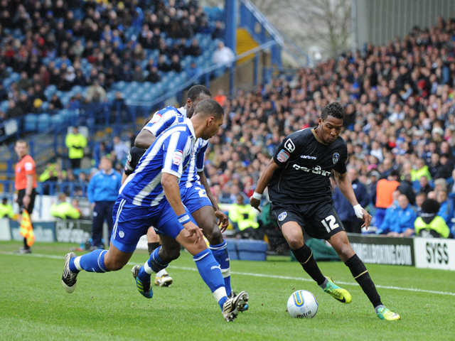 Bradley Diallo - Sheffield Wed V Oldham 2012 league one